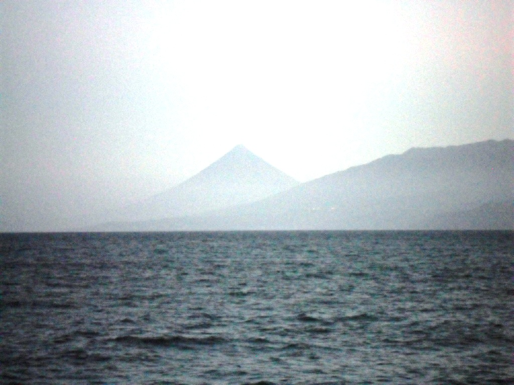 Mount Mayon during twilight at San Jose Port, Talisay, Dolo, San Jose, Camarines Sur.